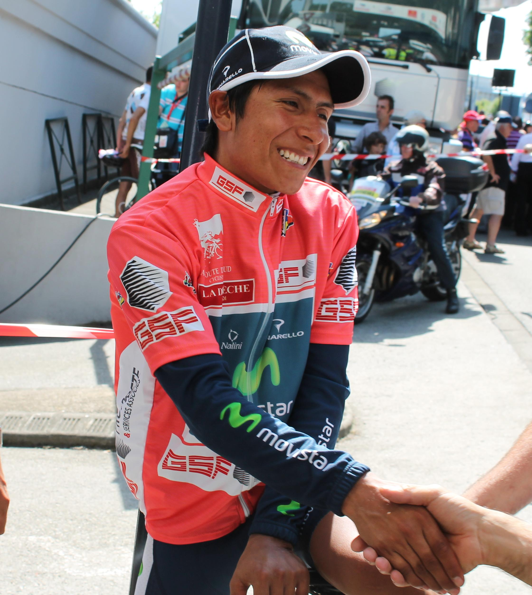 Nairo Quintana (Movistar) in Saint-Gaudens, all-smile after his victory on the 36th Route du Sud.